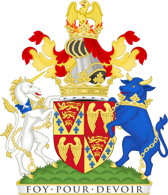 coat of arms of the duke of Somerset Arms. Quarterly: 1st and 4th, Or on a Pile Gules between six Fleurs-de-lis Azure three Lions of England (being the Coat of Augmentation granted by King Henry VIII on his marriage with Lady Jane Seymour); 2nd and 3rd, Gules two Wings joined in lure the tips downwards Or (Seymour). Crest. Out of a Ducal Coronet Or a Phoenix of the last issuing from flames proper. Supporters. Dexter: an Unicorn Argent armed maned and tufted Or gorged with a Ducal Coronet per pale Azure and Gold to which is affixed a Chain of the last; Sinister: a Bull Azure ducally gorged chained hoofed and armed Or. Motto. Foy Pour Devoir (Faith for duty). Cracroft's Peerage